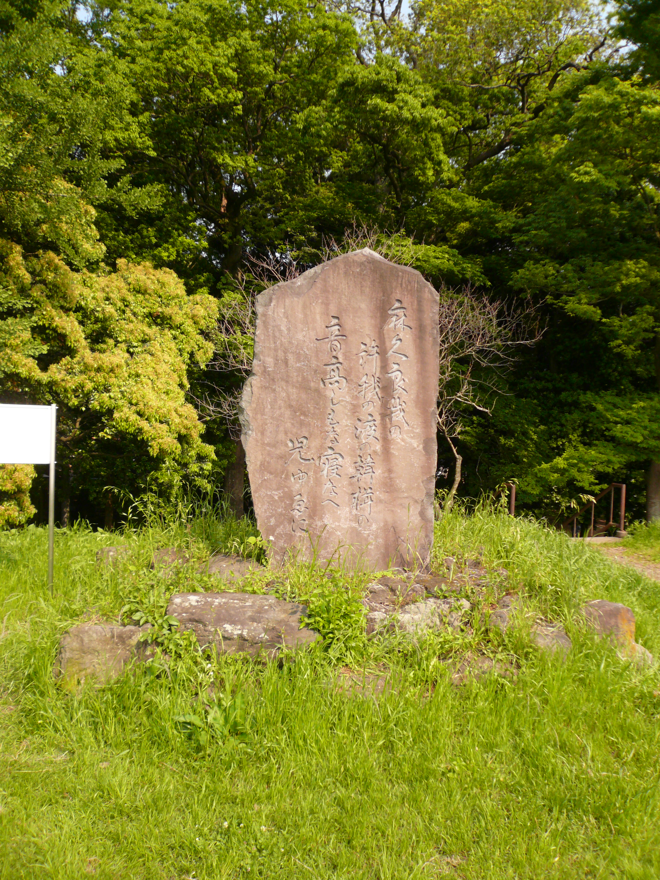 A monument inscribed with Man'yōshū, Koga, Ibaraki, Japan